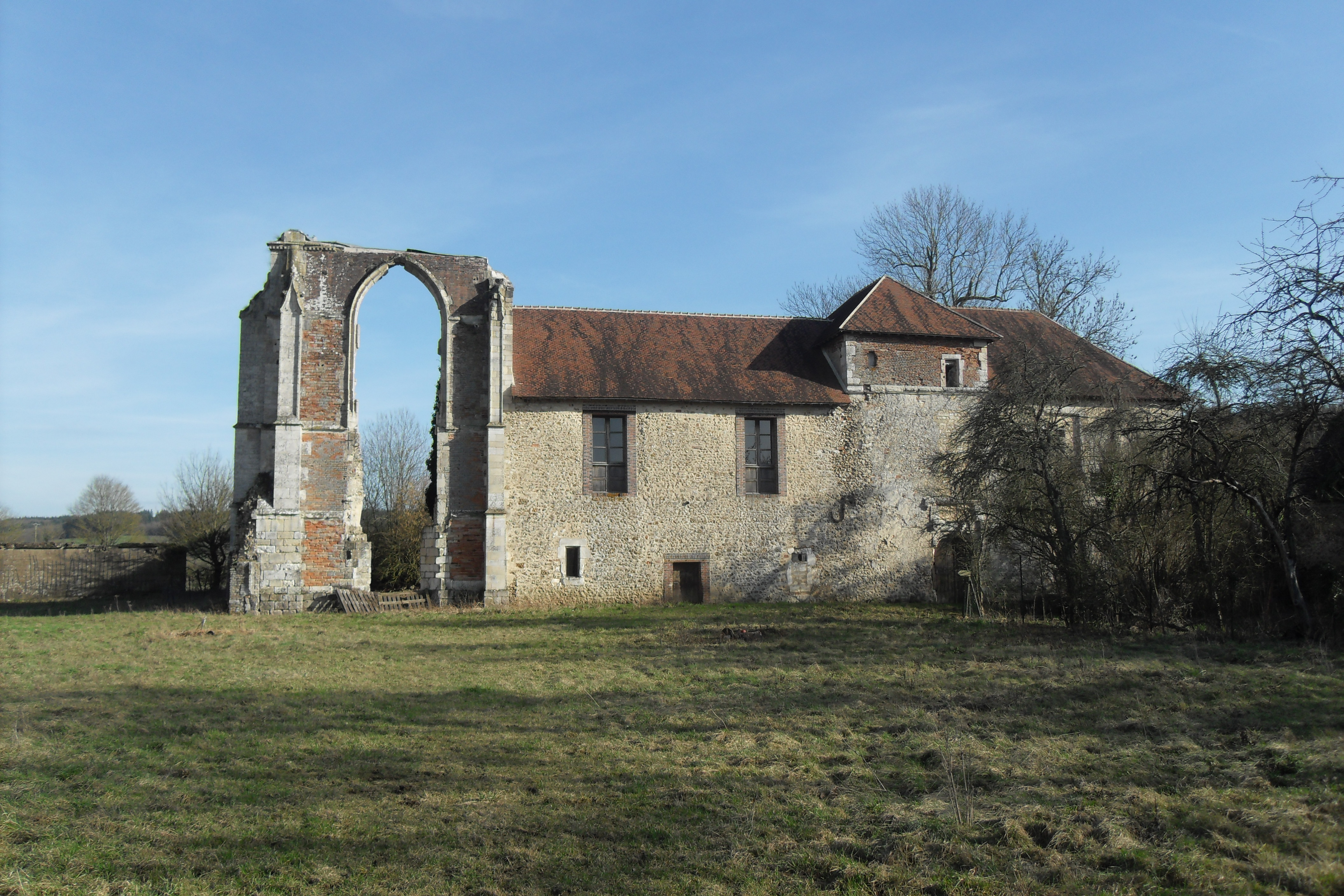 Enfourchure's priory in Dixmont (Yonne, Burgundy, France), established by the Earls of Joigny during the XIIIth century and granted to the Grandmontine Order. Xvith century arch